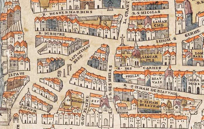 Maubert square on the Plan de Truschet and Hoyau (1550).